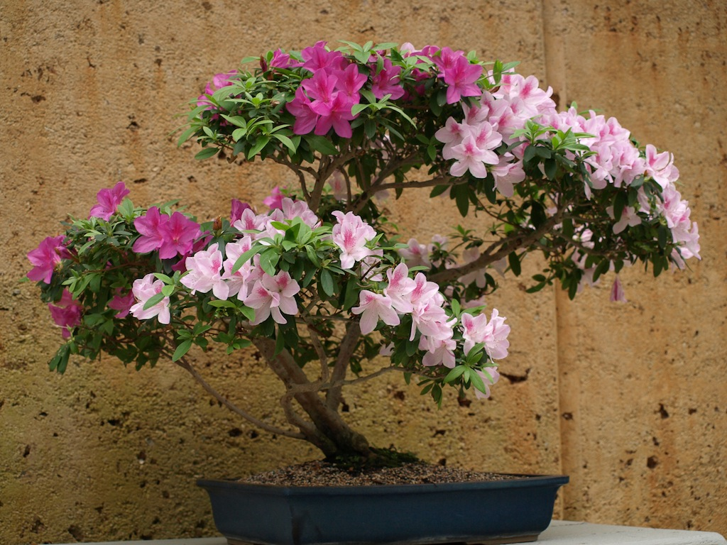 An azalea in Bonsai form from the Bonsai House at the Brisbane Botanic Gardens Mt Coot-tha.